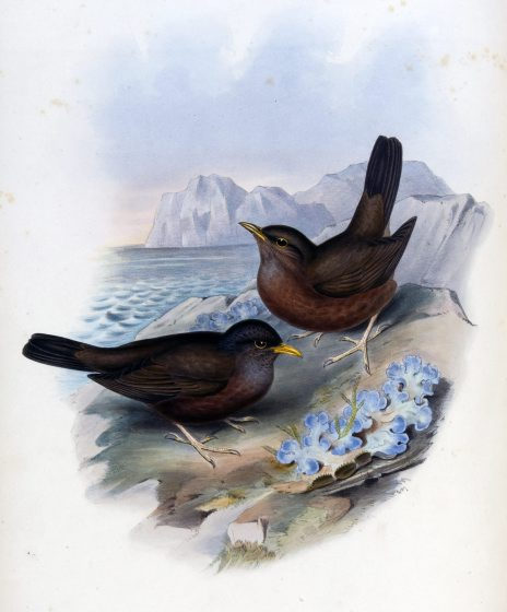 Illustration from The Birds of Australia showing (Merula vinitincta). Which is now a synonym of the Lord Howe Island Thrush (Turdus poliocephalus vinitinctus) by John Gould (1804-1881).